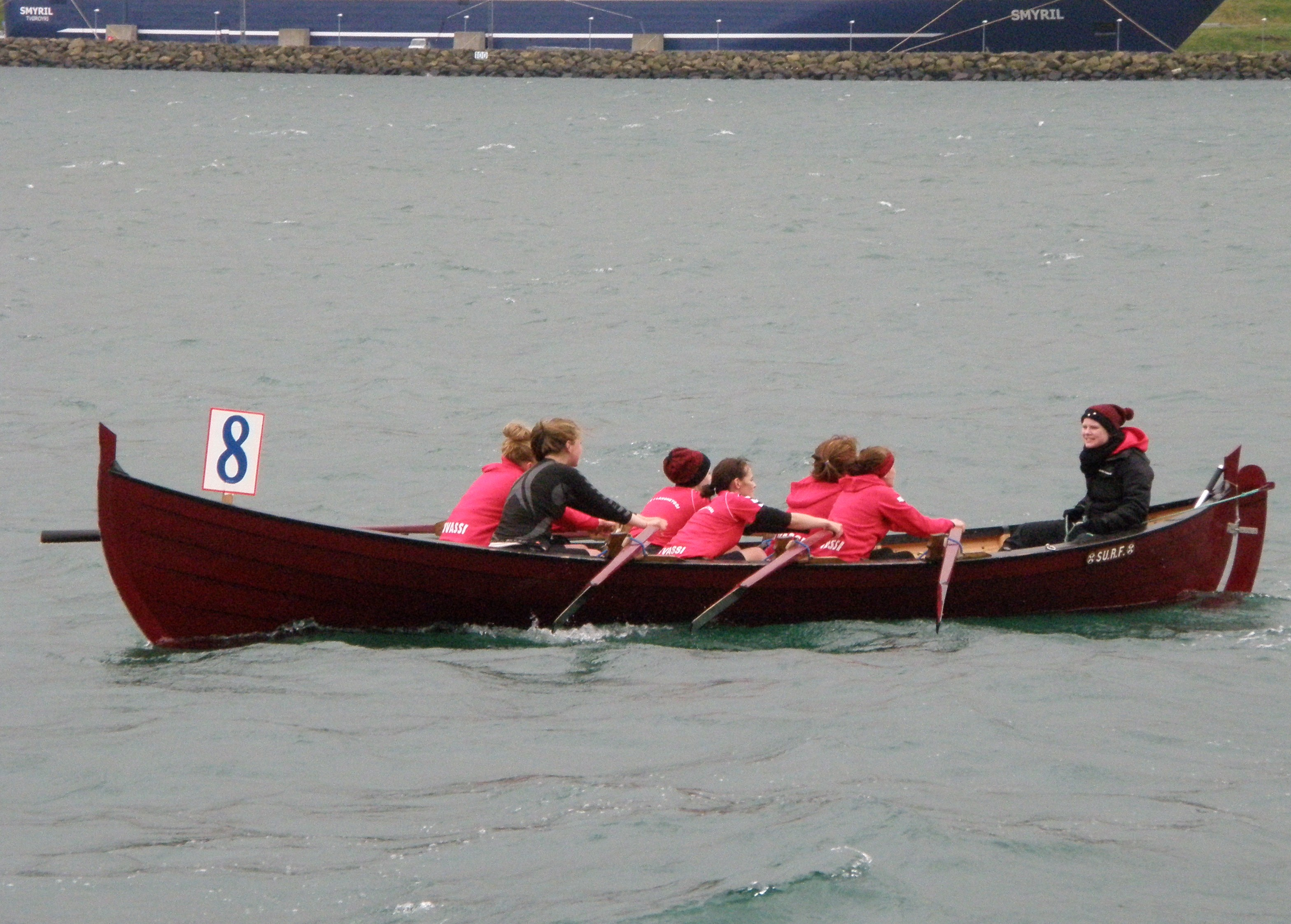 Hvassi is a Faroese rowing boat, a 5-mannafar (21 Danish feet long, 6 persons are rowing plus one coxswain to steer the boat). This photo was taken at the Joansoka Boat Race in Tvøroyri, Suðuroy, Faroe Islands. Hvassi won the race for 5-mannafør girls. The boat Hvassi belongs to the rowing club Sunda Róðrarfelag. Føroyskt: Hvassi er 5-mannafar, sum Sunda Róðrarfelag eigur. Henda myndin varð tikin á Jóansøku á Tvøroyri 25. juni 2011. Hvassi vann genturóðurin hjá 5-mannaførum á Jóansøku. Sunda Róðrarfelag er heimahoyrandi á Oyri.